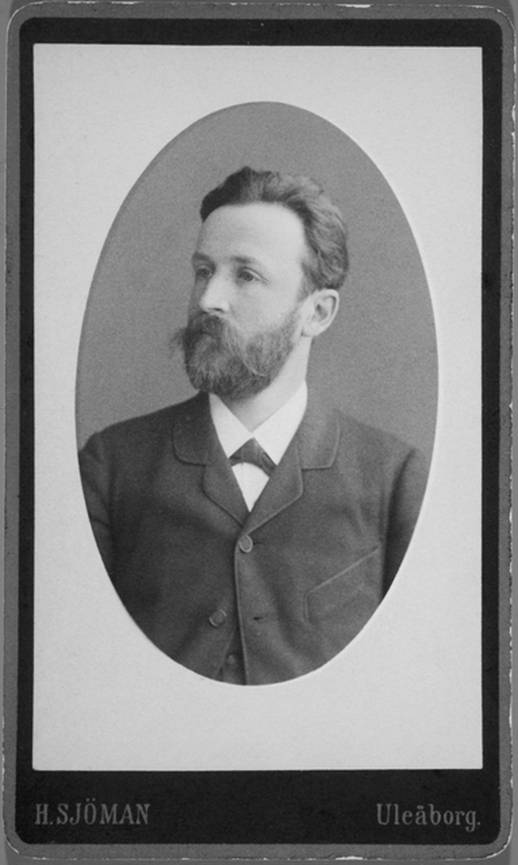 Photograph of the Finnish architect Ivar Aminoff (1843–1926).